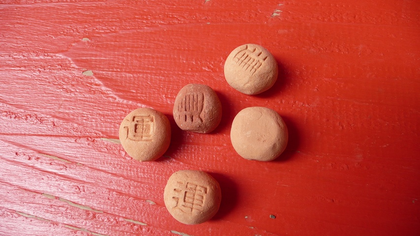 Udo Jingu - Luck Ball (Nichinan City, Miyazaki, Japan)